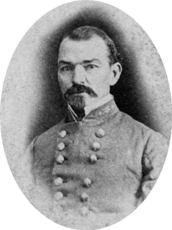 Photograph of Major General Samuel Gibbs French